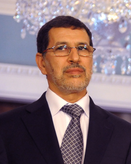 Foreign Minister Saad-Eddine Al-Othmani of Morocco during a meeting with U.S. Secretary of State Hillary Rodham Clinton at the Department of State in Washington, D.C. on March 15, 2012.